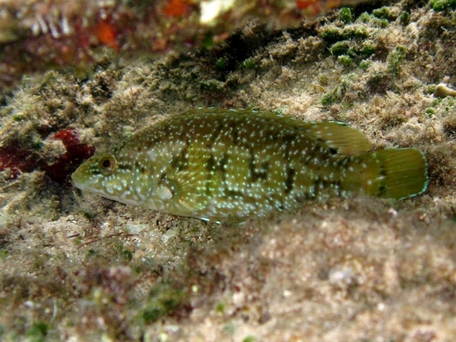 Labrus merula photographed in Koufonissi, Greece.